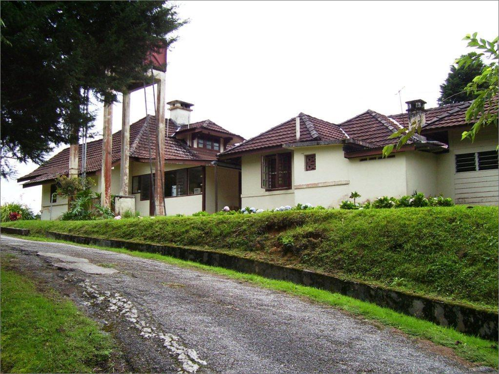 The Lutheran Mission bungalow is located at No. A45, Jalan Kamunting, 39000, Tanah Rata, Cameron Highlands, Pahang, West Malaysia. Photo taken by User: Roysouza.